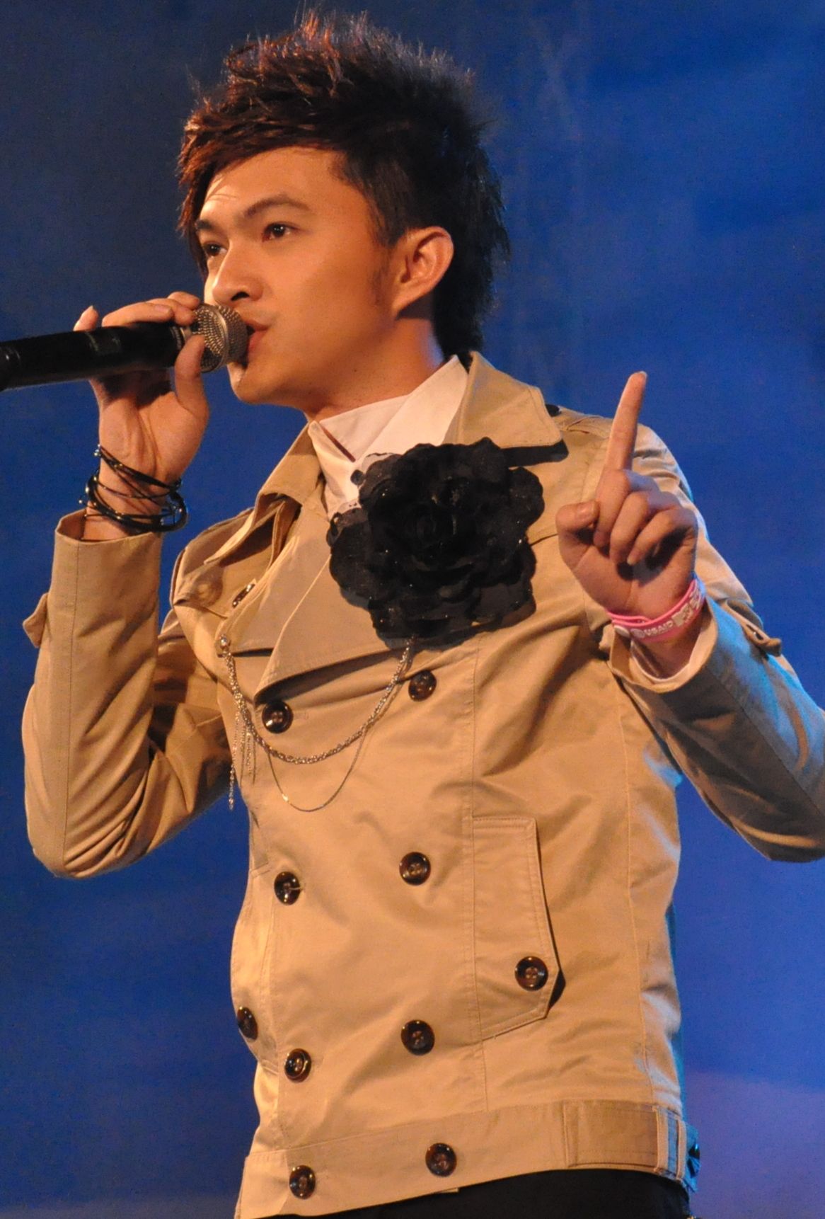 Concert in Can Tho against human trafficking, April 10, 2010; Photo: USAID